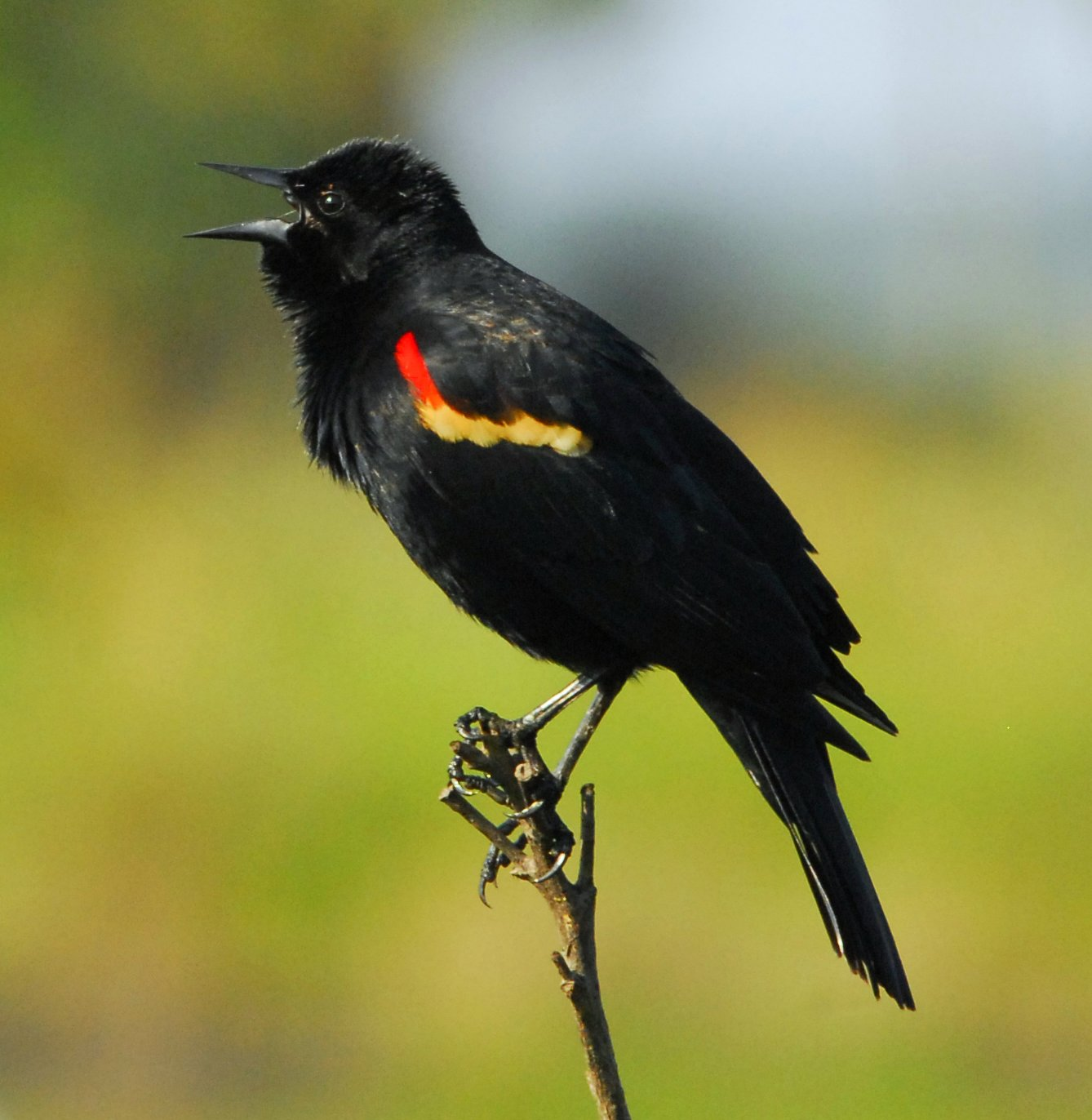 Red-winged Blackbird at Lake Woodruff